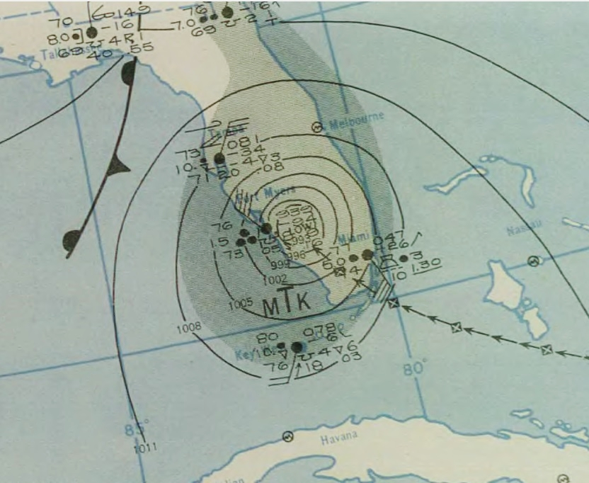 Surface weather analysis of Hurricane Nine on 16 September 1945.